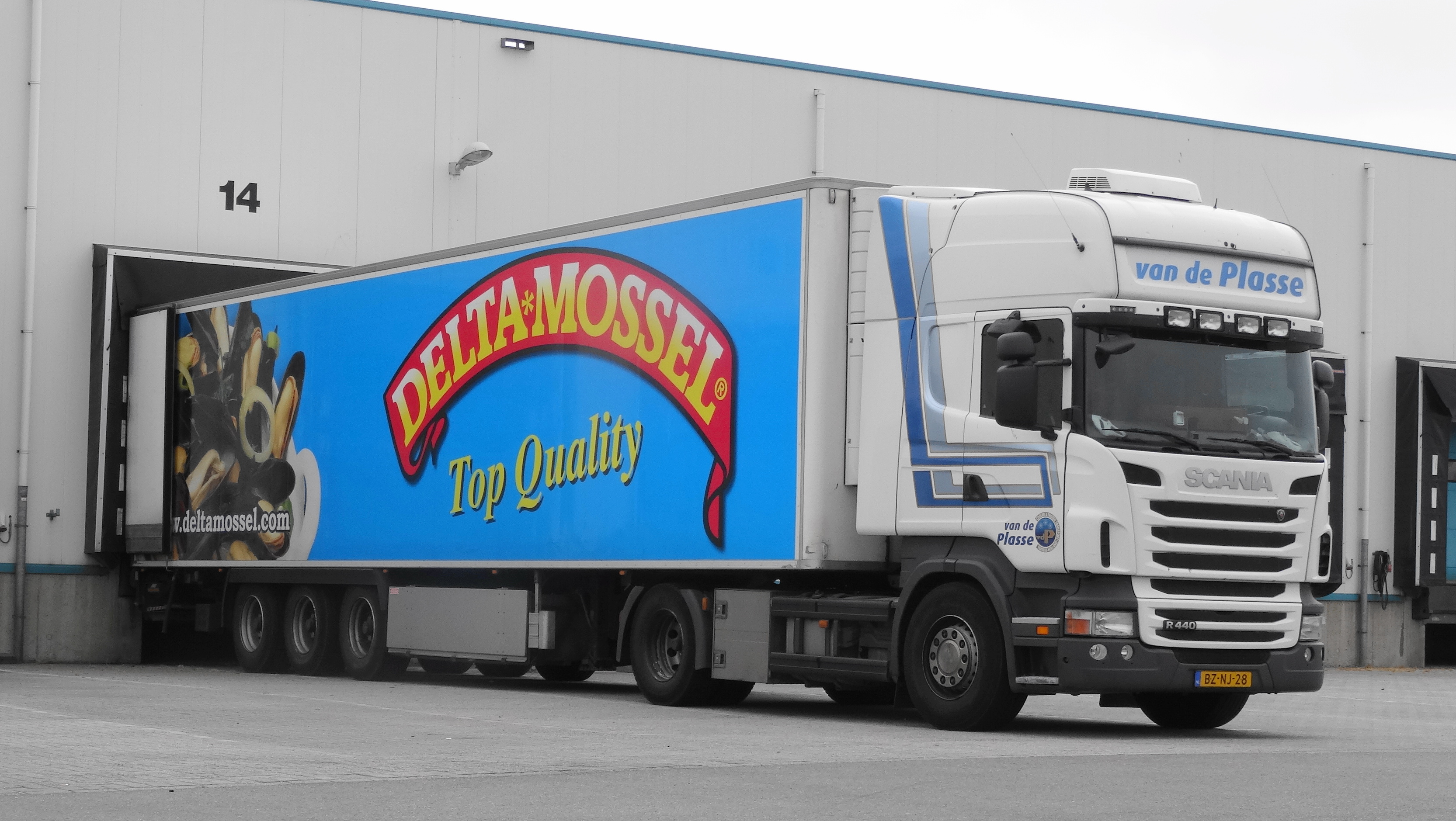 A refrigerator truck for transporting mussels.